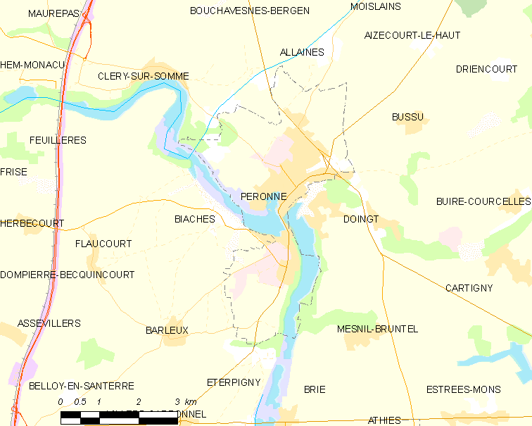 Map of French municipality Péronne